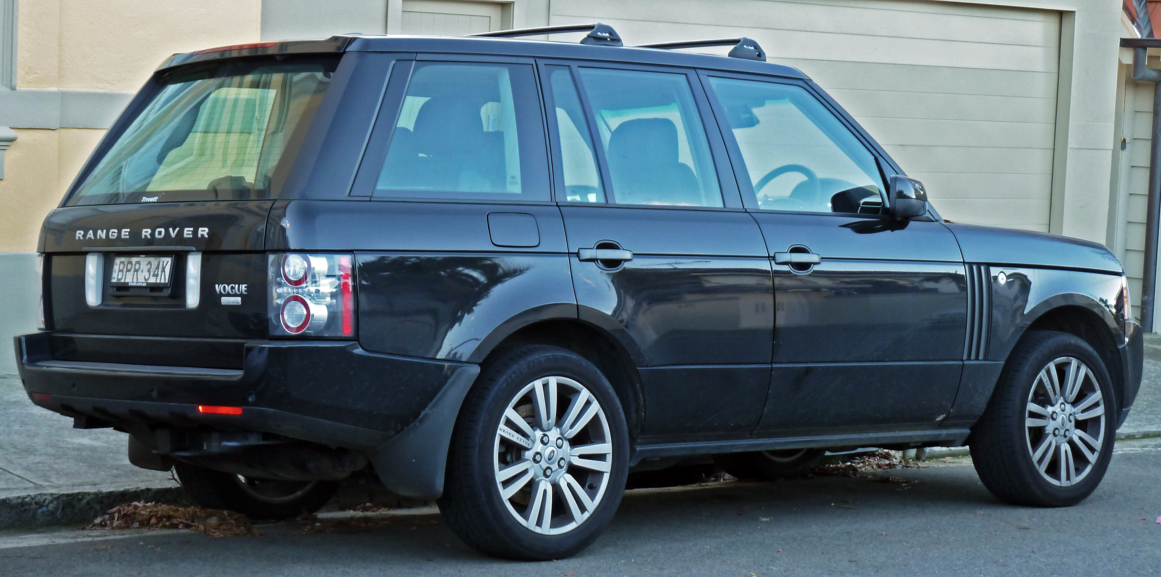 2010 Land Rover Range Rover Vogue (L322 10MY) TDV8 Luxury wagon. Photographed in Point Piper, New South Wales, Australia.